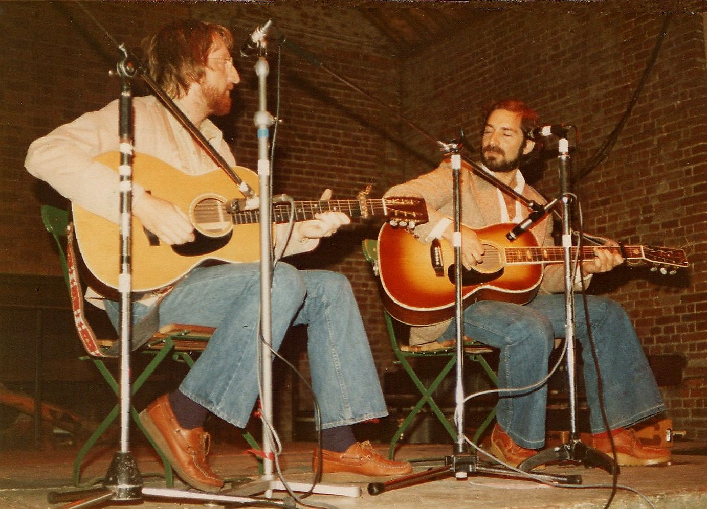 Pat Alger and Artie Traum, musicians, onstage at the Norwich Folk Festival, U.K., 1978 (photograph by Tony Rees)